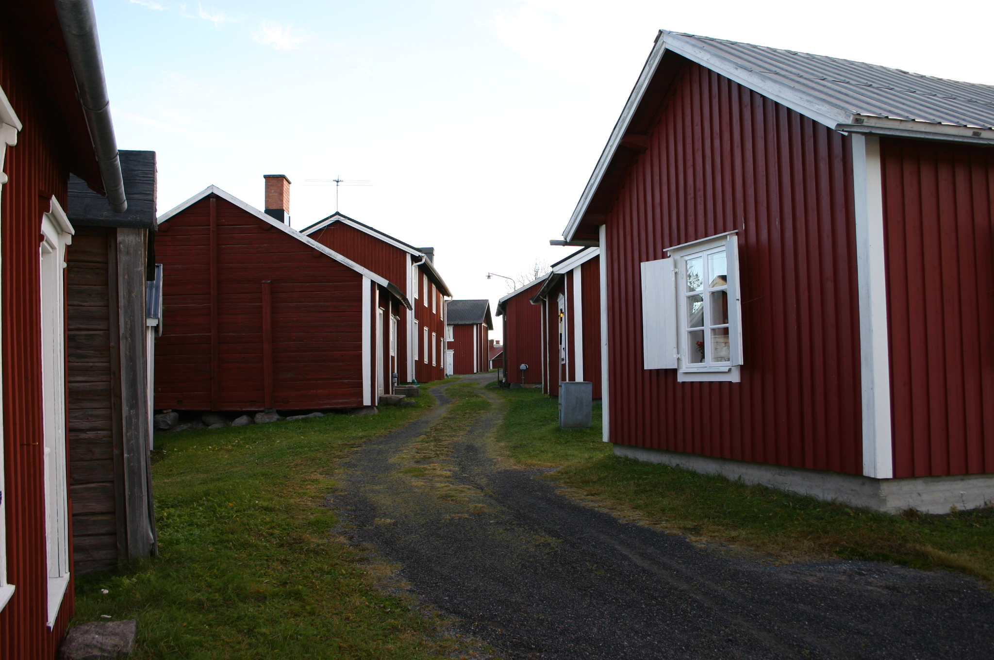 Description: Gammelstad Church Town (Gammelstad,Sweden) source: created on 18.10.2005 by Stephan Herz with Canon EOS 300D